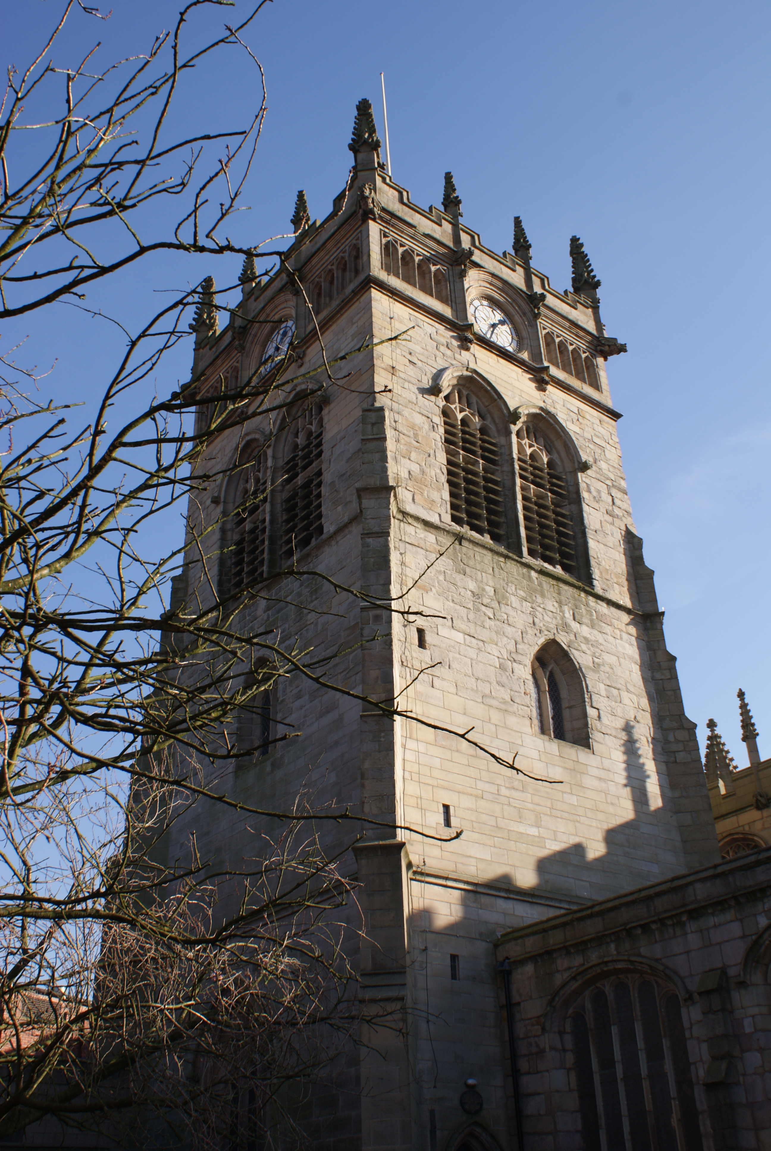 Upper stages of the tower of All Saints' parish church, Wigan, Greater Manchester